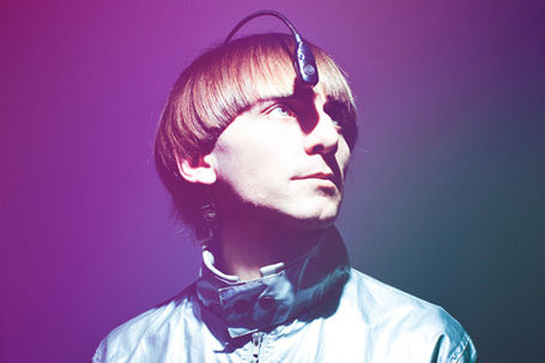 Neil Harbisson, October 2012